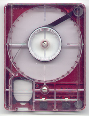 NAB-cartridge for radio use, manufactured by Fidelipac. Model AA Master Cart